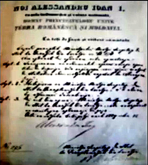 Romanian Law of the press, from 1862Română: Legea presei din 1862